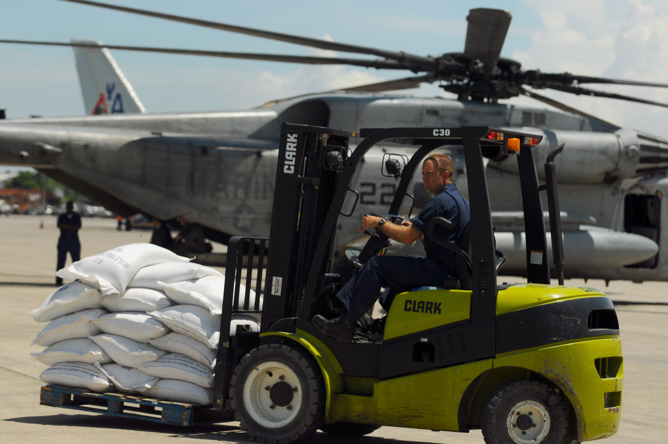 PORT-AU-PRINCE, Haiti (Sept. 13, 2008) Service members embarked aboard the amphibious assault ship USS Kearsarge (LHD 3) load supplies onto helicopters for delivery to areas affected by recent hurricanes in Haiti. Kearsarge has been diverted from the scheduled Continuing Promise 2008 humanitarian assistance deployment in the western Caribbean to conduct hurricane relief operations in Haiti. (U.S. Navy photo by Mass Communication Specialist Seaman Apprentice Joshua Adam Nuzzo/Released) Clark C30 forklift